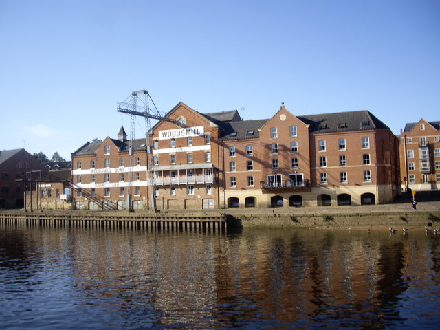 Woods Mill Quay, Queens Staith Viewed from near the Kings Arms.